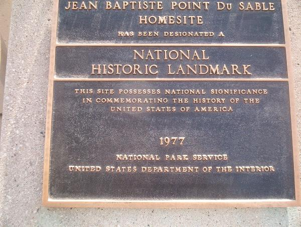 Jean Baptiste Point du Sable Homesite National Historic Landmark, (Reference number: 76000690